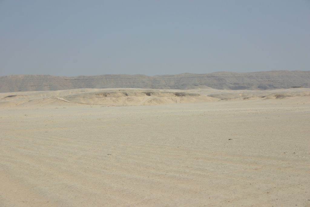 Bluff showing enterance to some of the southern tombs at Amarna